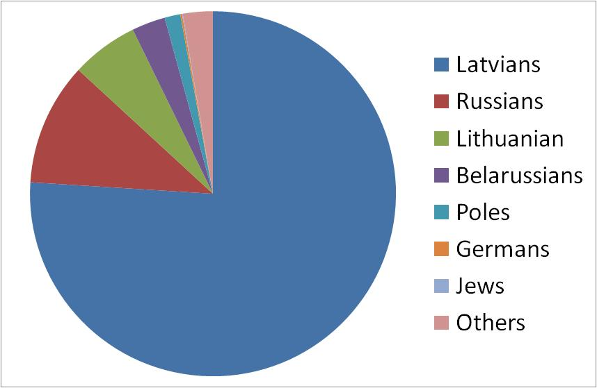 Proportional distribution of ethnicities in Bauska, Latvia. According to English language Wikipedia